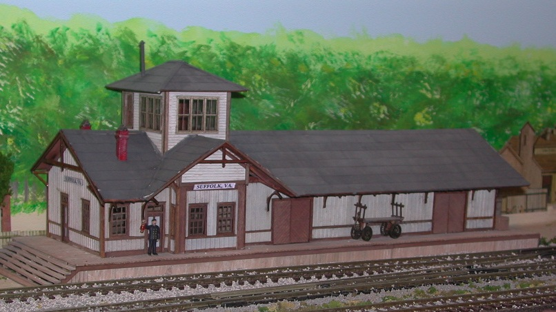 train station Photo by William J. Grimes